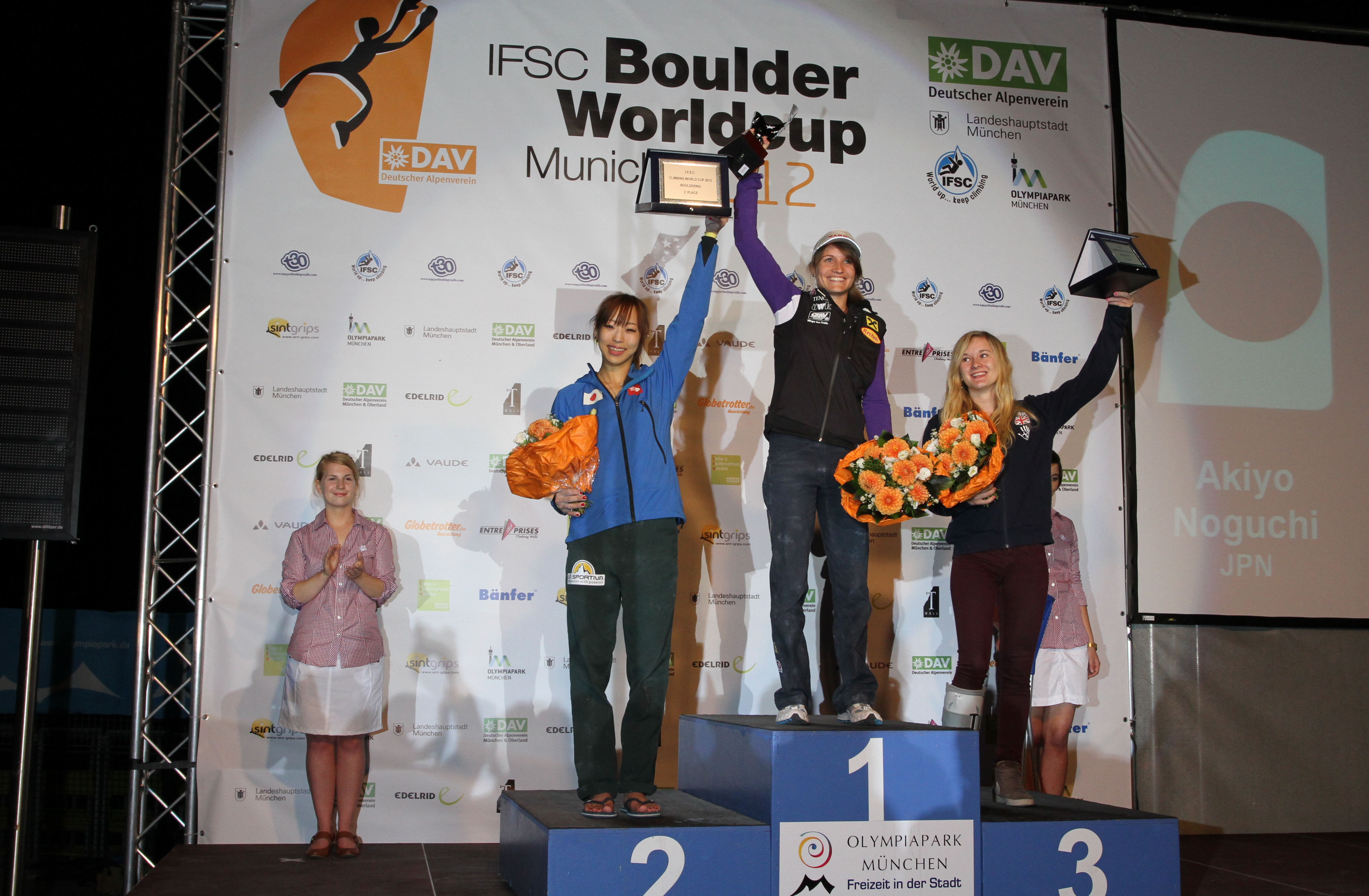 Female winners of the Climbing Worldcup season 2012, 1. Anna Stöhr, AUS, 2. Akiyo Noguchi JPN 3. Shauna Coxsey GBR